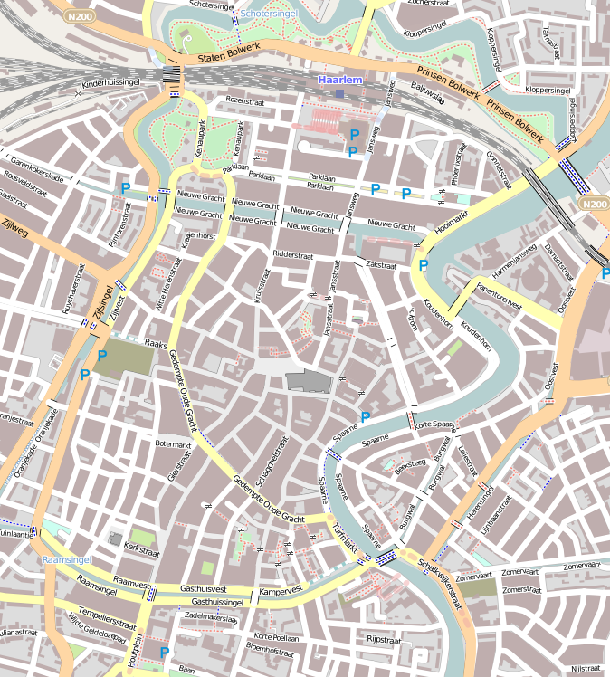 Map of Haarlem Geographic limits of the map: N: 52.39015° S: 52.37407° W: 4.62487° E: 4.64933°